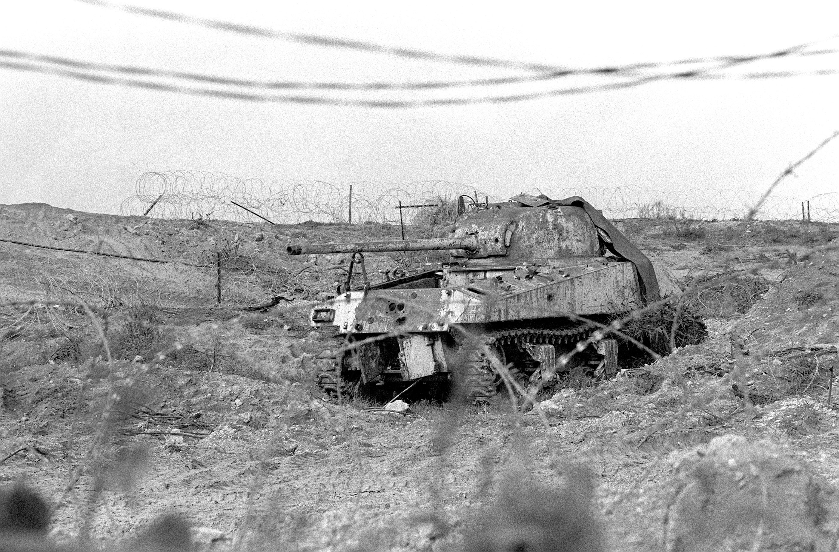 A right rear view of a wrecked and stripped Israeli M50 Mark II Sherman tank with its gun turret traversed to the rear. Remark: The tank is not M-50. It's apparently Firefly, probably formerly used by one of the Lebanese militions.